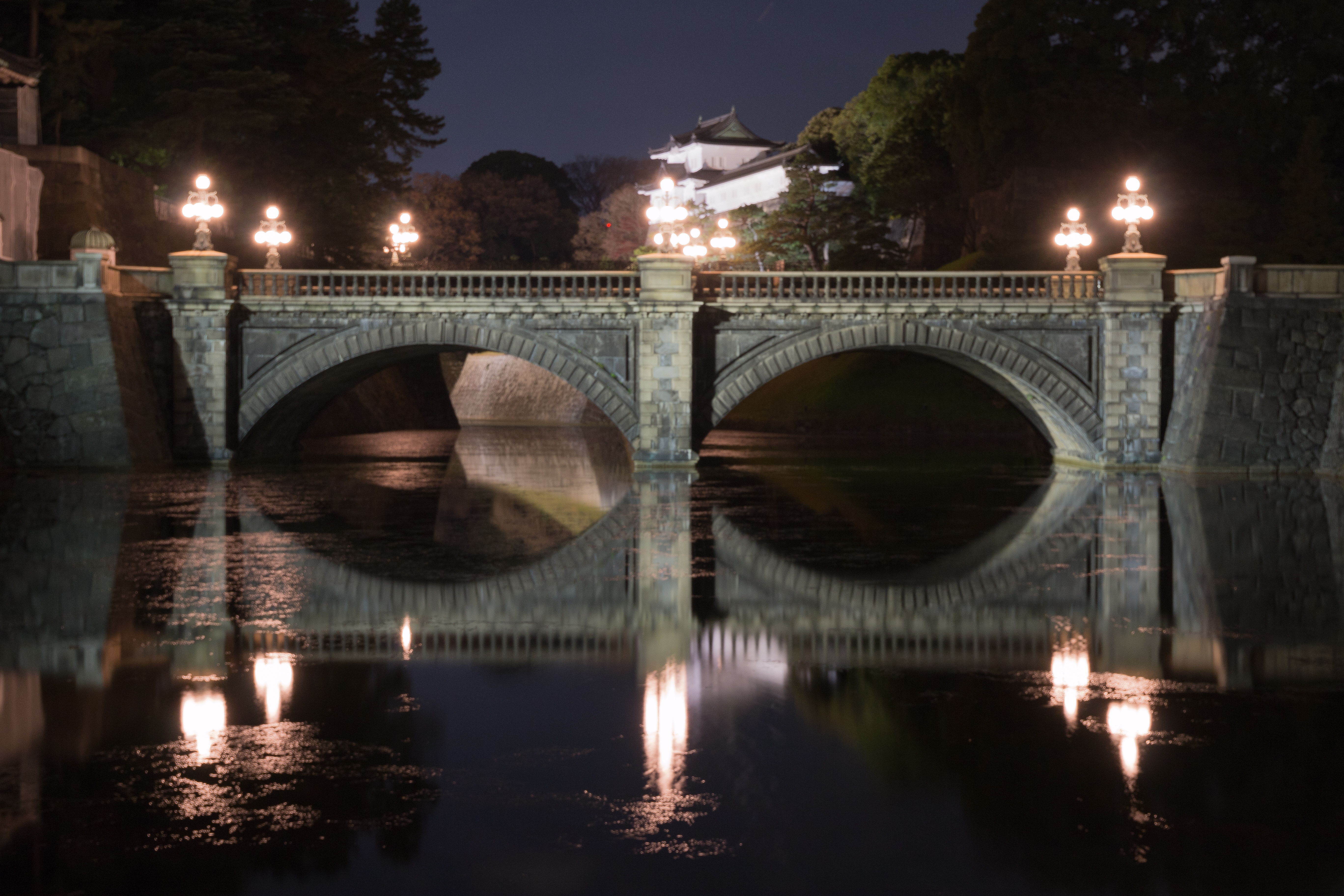 Seimon Ishibashi at the Tokyo Imperial Palace